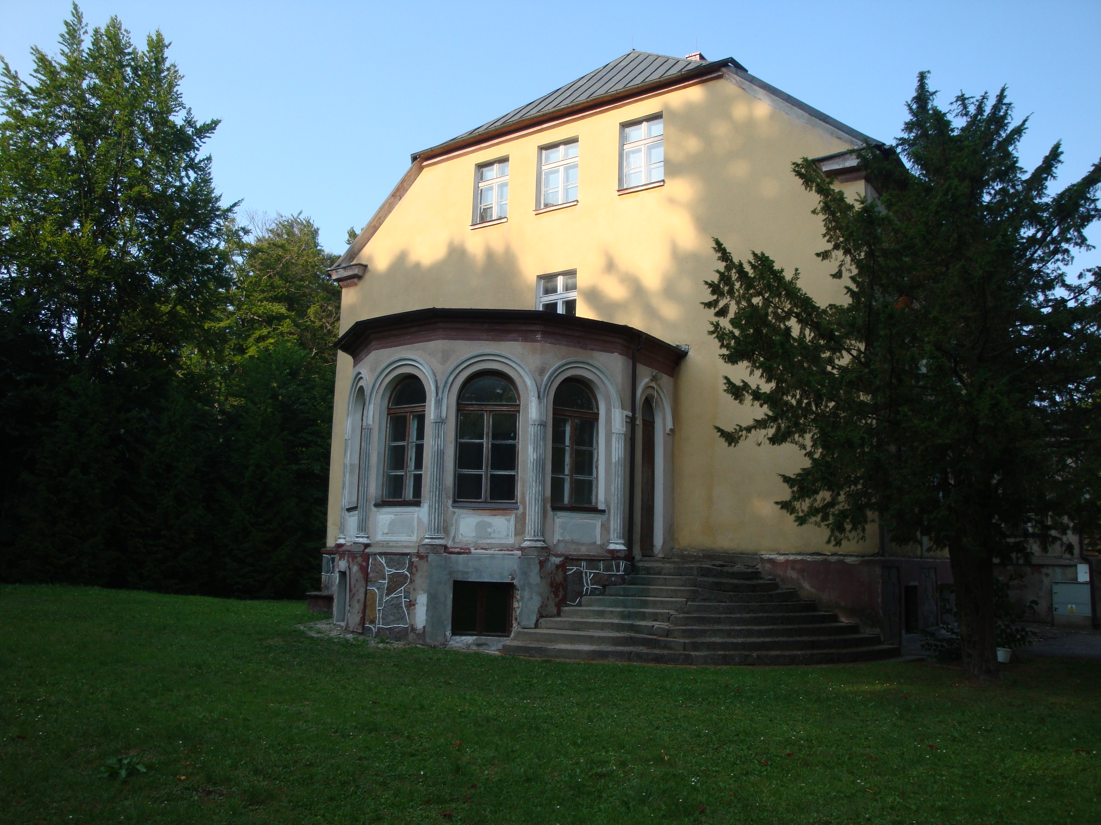 Świecichowo-village in Pomeranian Voivodeship, Poland